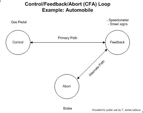 Control-Feedback-Abort Loop using automobile controls as an example.